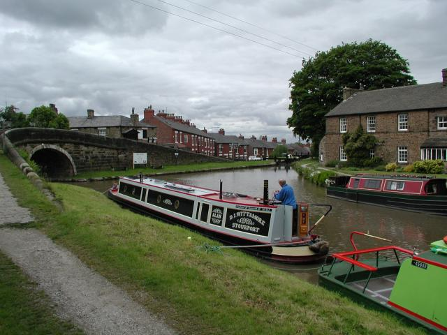 Marple Basin, Macclesfield canal leaves to the left. Ahead to lock 16 Peak Forest Canal.